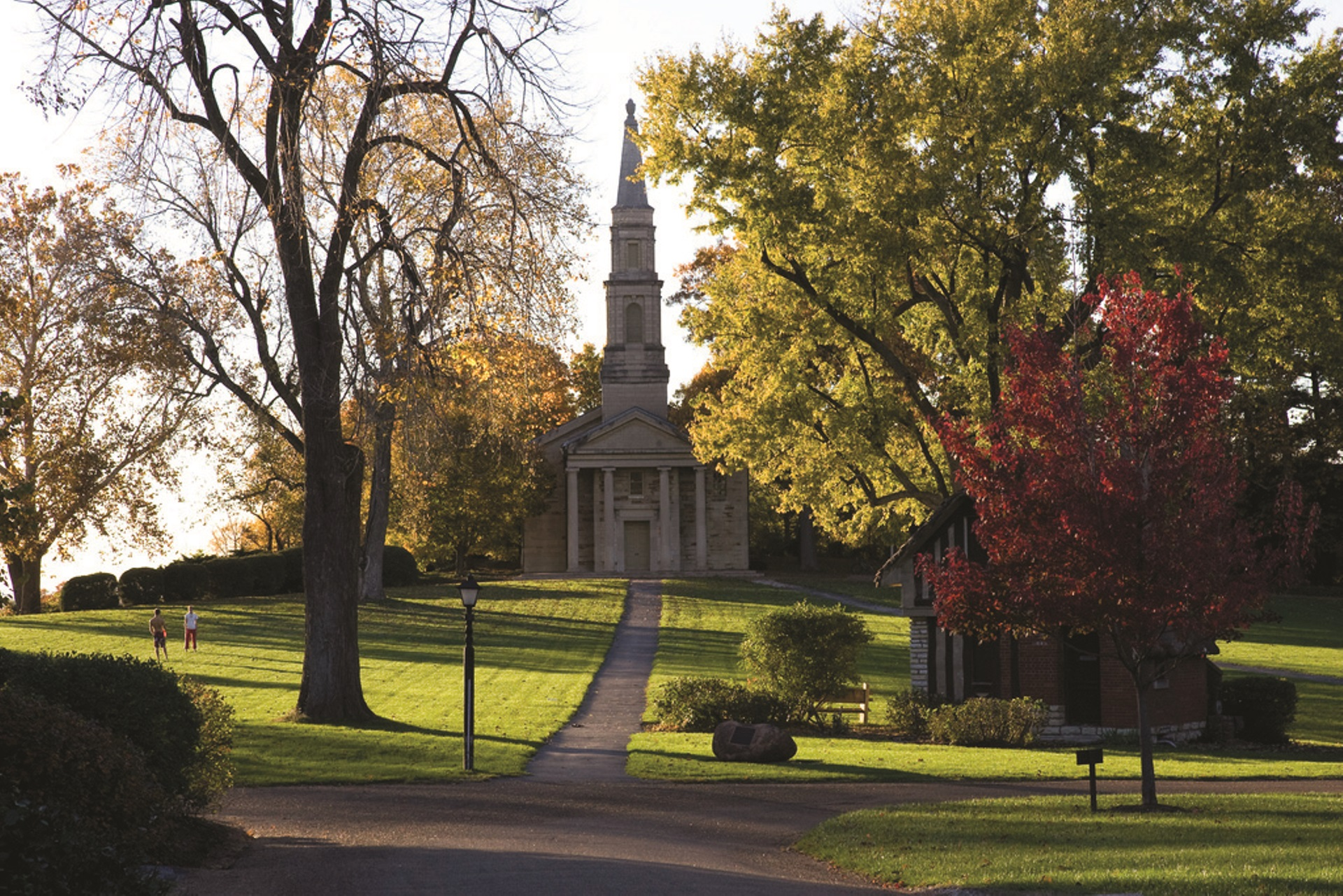 Principia College chapel in Fall